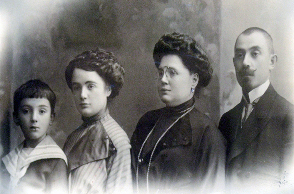 From right to left: Georgian composer Zacharia Paliashvili, his wife Julia Mikhailovna Utkina, step-daughter Antonina and son Irakly.